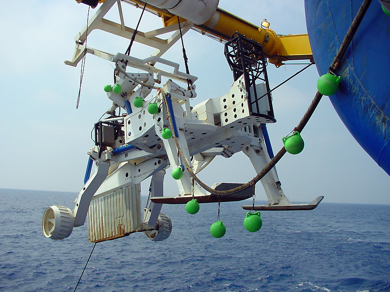 Submarine plow (shown raised out of the sea) for burying submarine cables in the sea bed. Burying the cable helps protect it from trawlers and other risks.